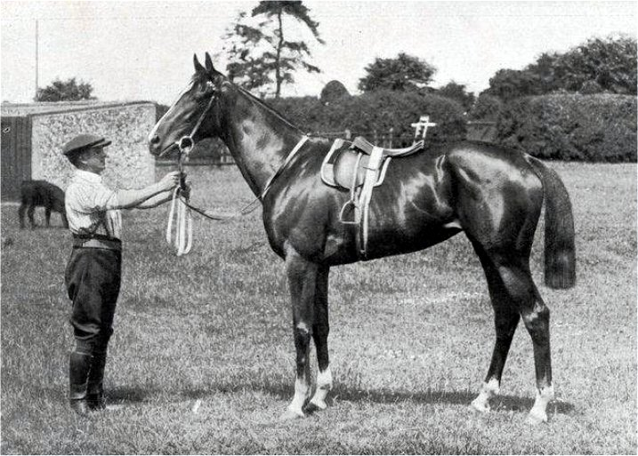 The British-bred, French-trained Thoroughbred filly Mirska in France. Mirska won the 1912 Epsom Oaks in an upset over the favourite Tagalie.